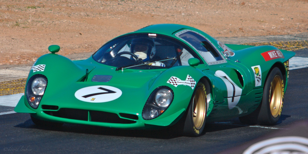 David Piper's Ferrari P racing car (in trademark "BP green") photographed at Zwartkops Raceway, Pretoria at a revival race meeting in 2007. A ZA-built Bailey-Edwards Ferrari P4 REPLICA, powered by a BMW V-12, South Africa.